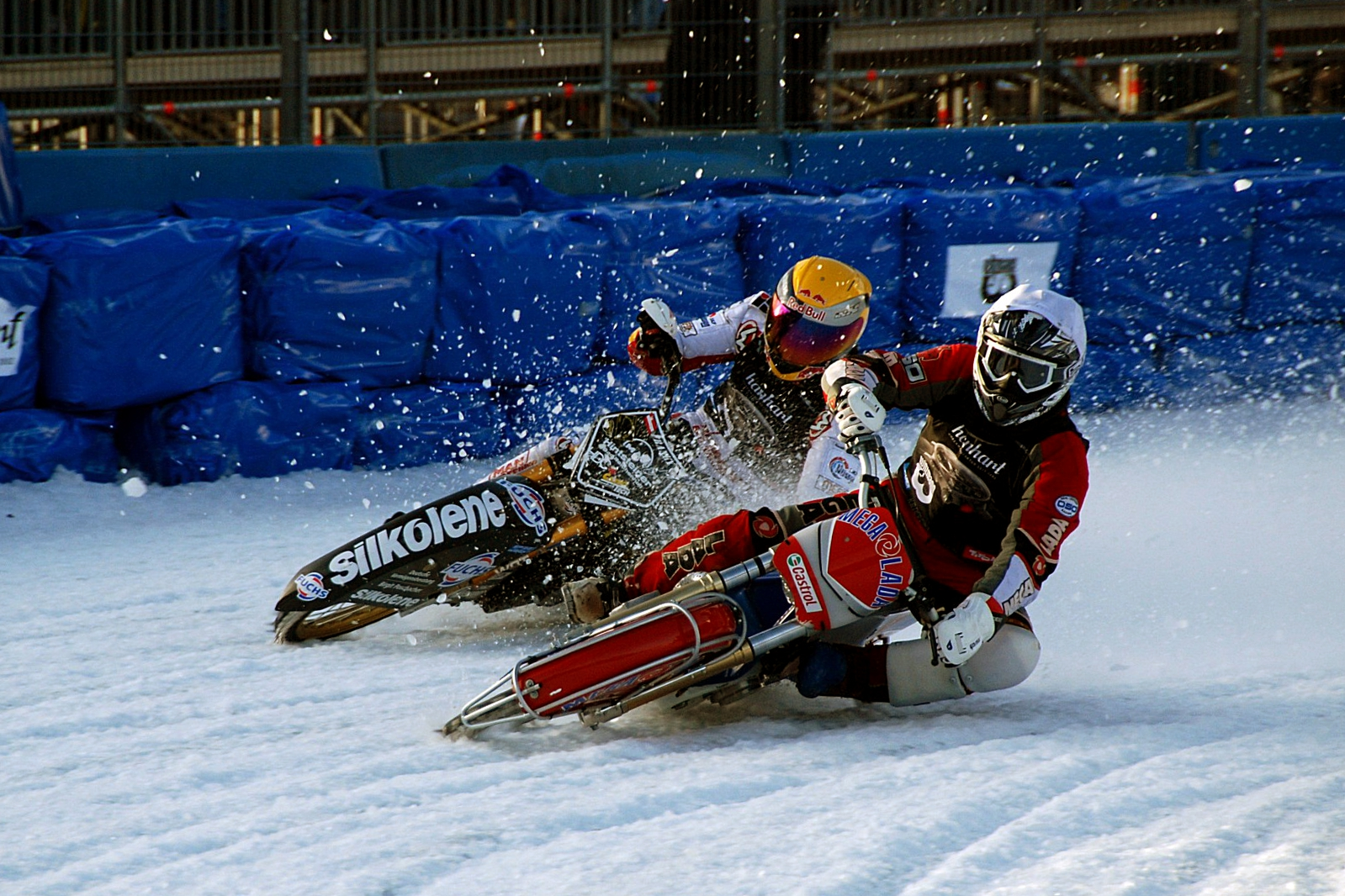 Final of the Ice speedway-Championship 2010 in Innsbruck (2010 Individual Ice Racing World Championship